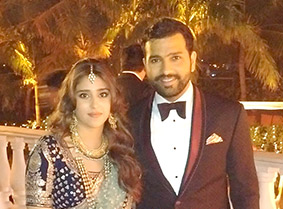 Indian cricketer Rohit Sharma with Ritika Sajdeh during their wedding event at Taj Lands End.